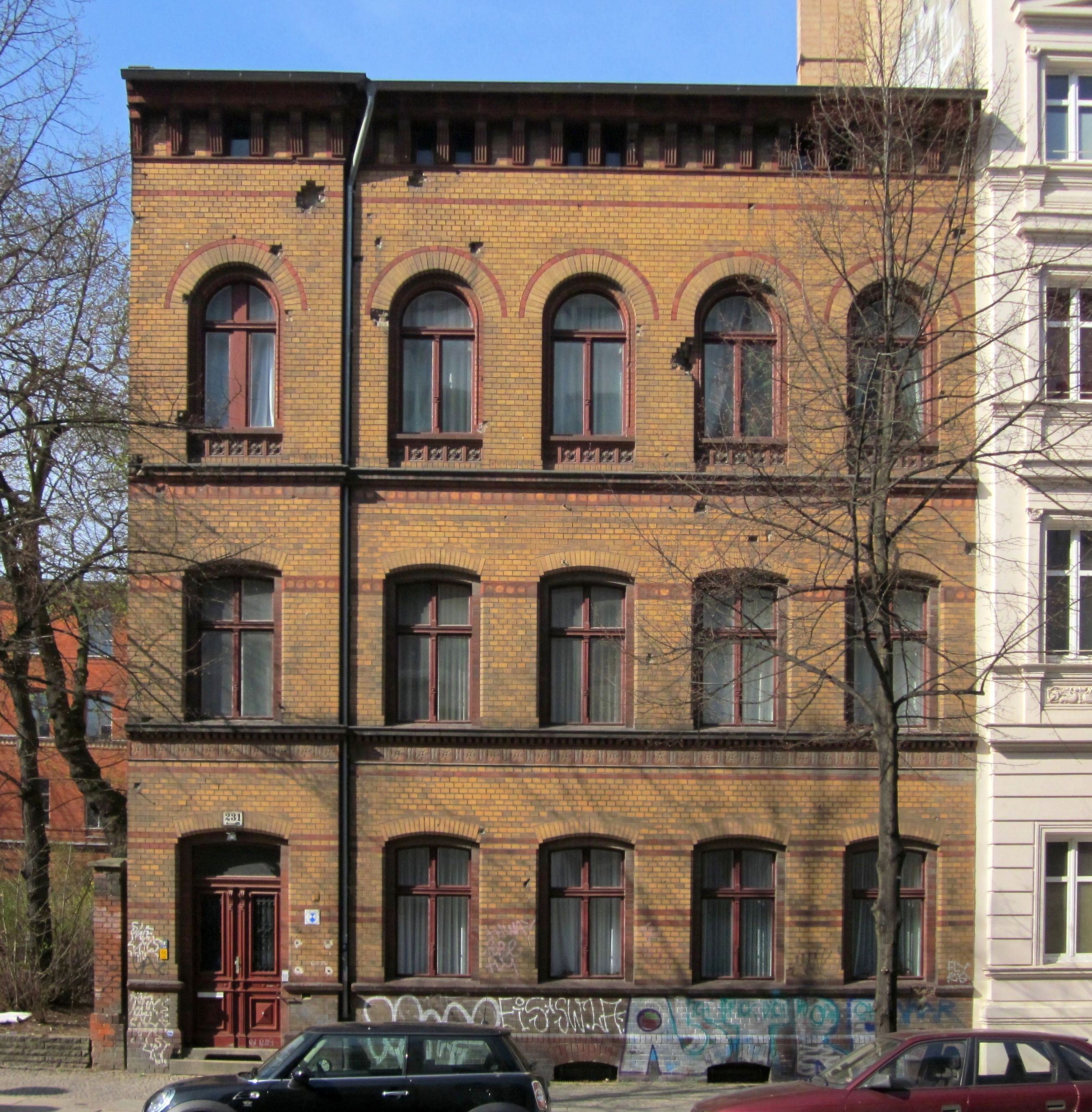 Former preacher home of Zion Church at Schwedter Straße 231 in Berlin-Mitte. The house was built in 1888. It has been dedicated as a historic landmark.